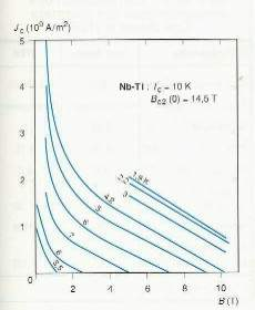 Evolution des performances du NbTi avec la température